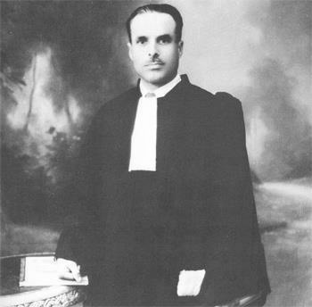 Bourguiba wearing his lawyer cloack in 1930-1932